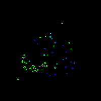 23/3 (chaotic) "Conway's Life" Created by SPW from wikipedia en "I created this image, and release any natural copyrights that I may hold on it."